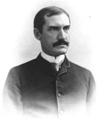 Christopher A. Bergen (New Jersey Congressman)